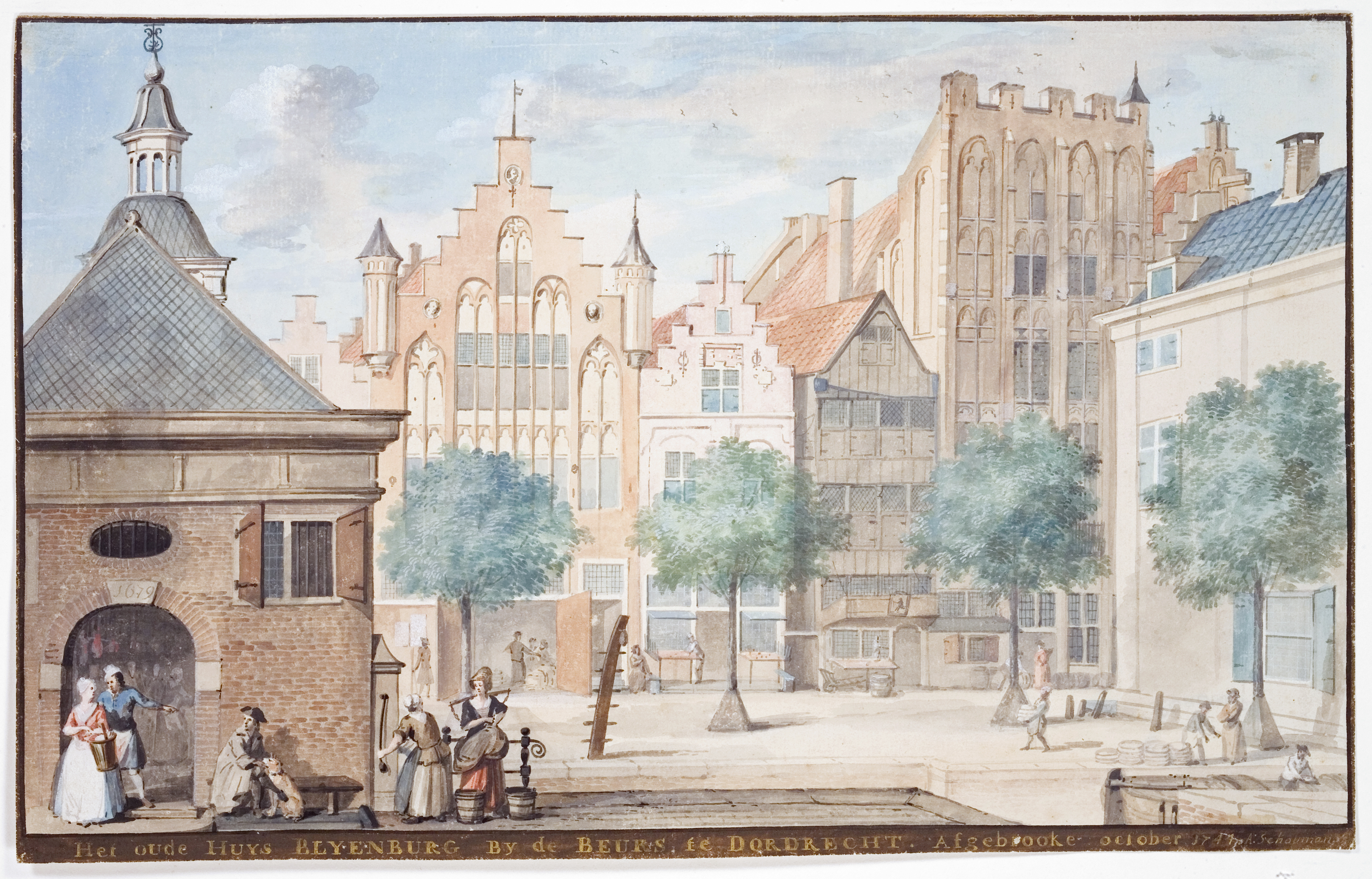 In the foreground to the left is the Exchange, in the background the houses Scharlaken, Leeuwensteijn and Blijenburg. Contact Crispian Riley-Smith, Old Master Drawings, London for additional information.